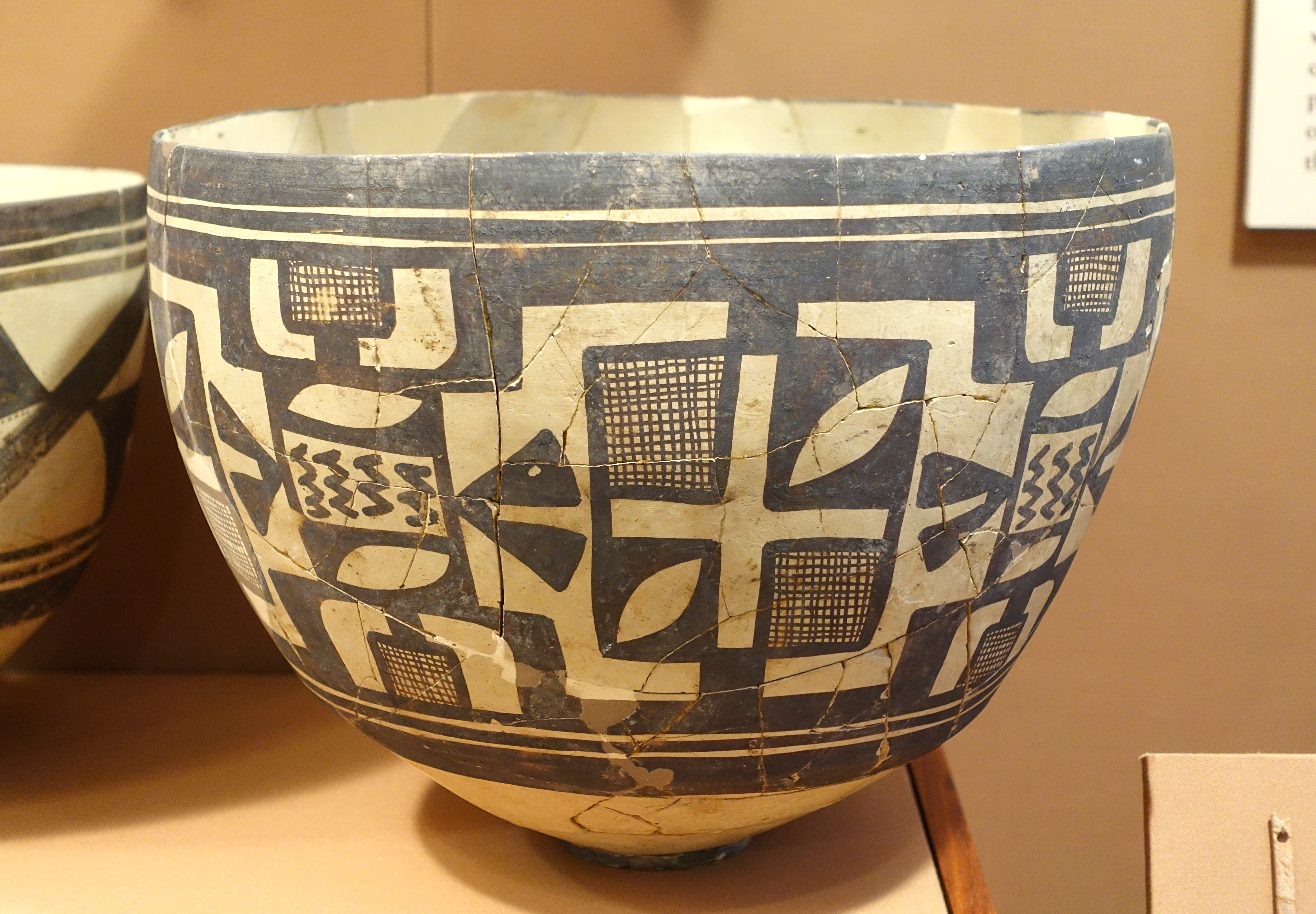 Exhibit in the Oriental Institute Museum, University of Chicago, Chicago, Illinois, USA. This work is old enough so that it is in the public domain.